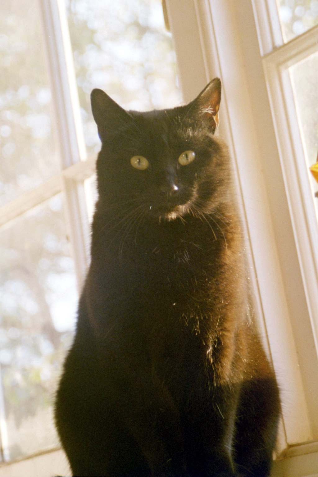 Black cat sitting in a statuesque manner.